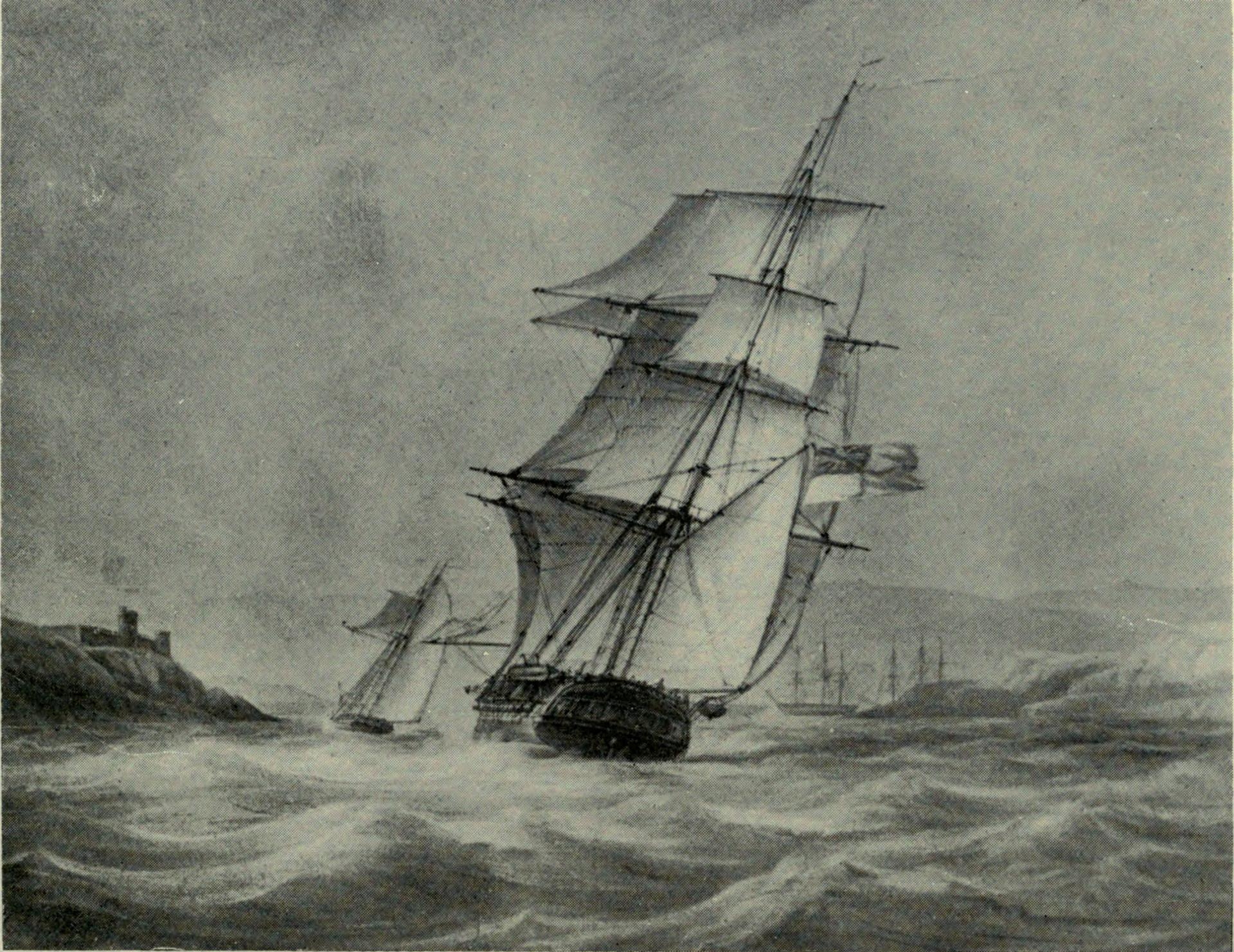 The Egyptienne frigate (Captain The Hon. C. Paget) in pursuit of Spanish schooner, 1806.